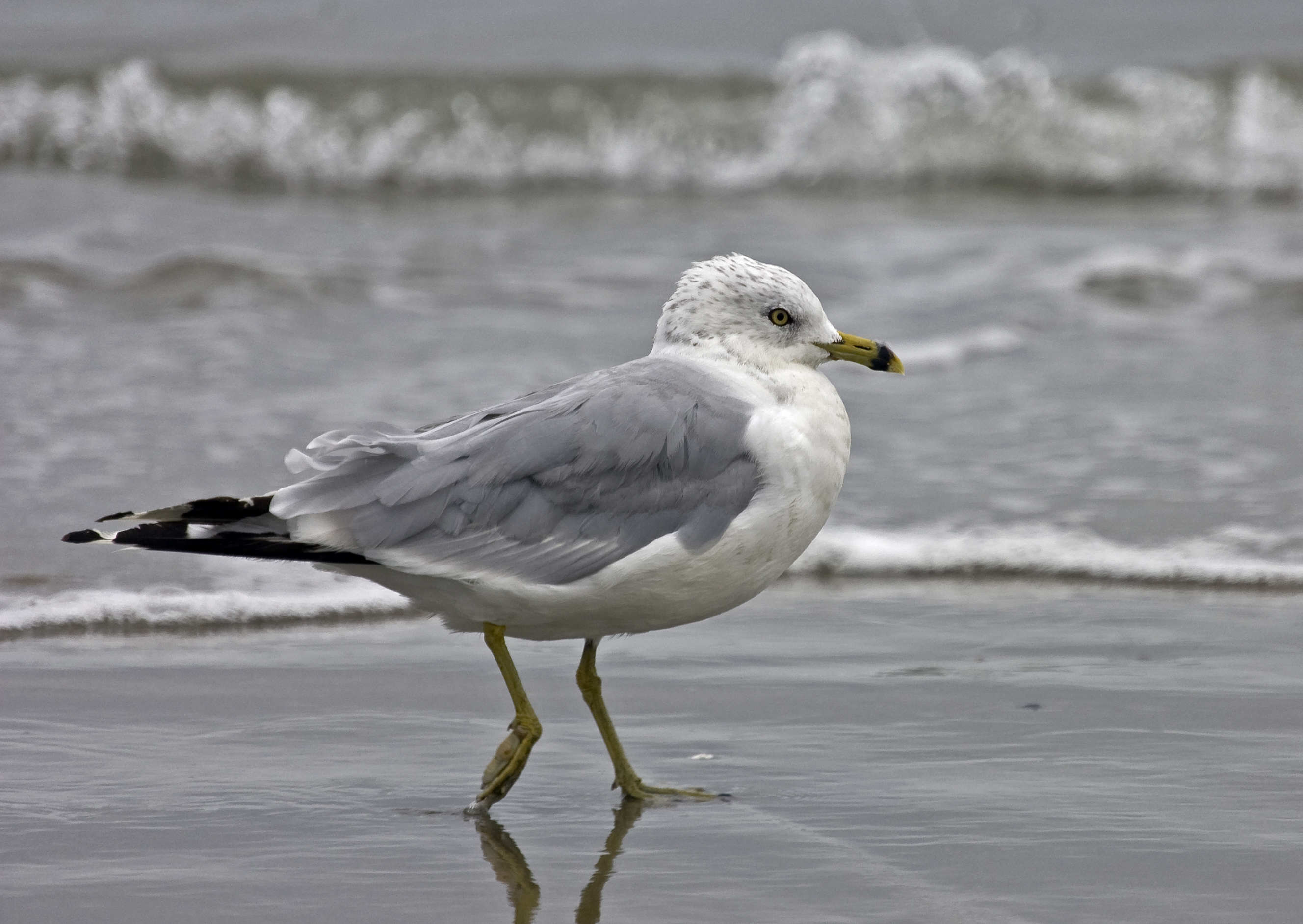 A Ring-billed Gull color corrected.